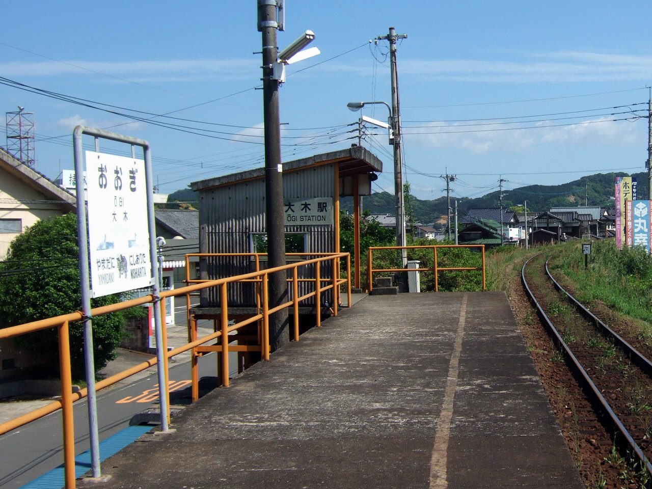 松浦鉄道大木駅（Matsuura Railway Ogi Station）